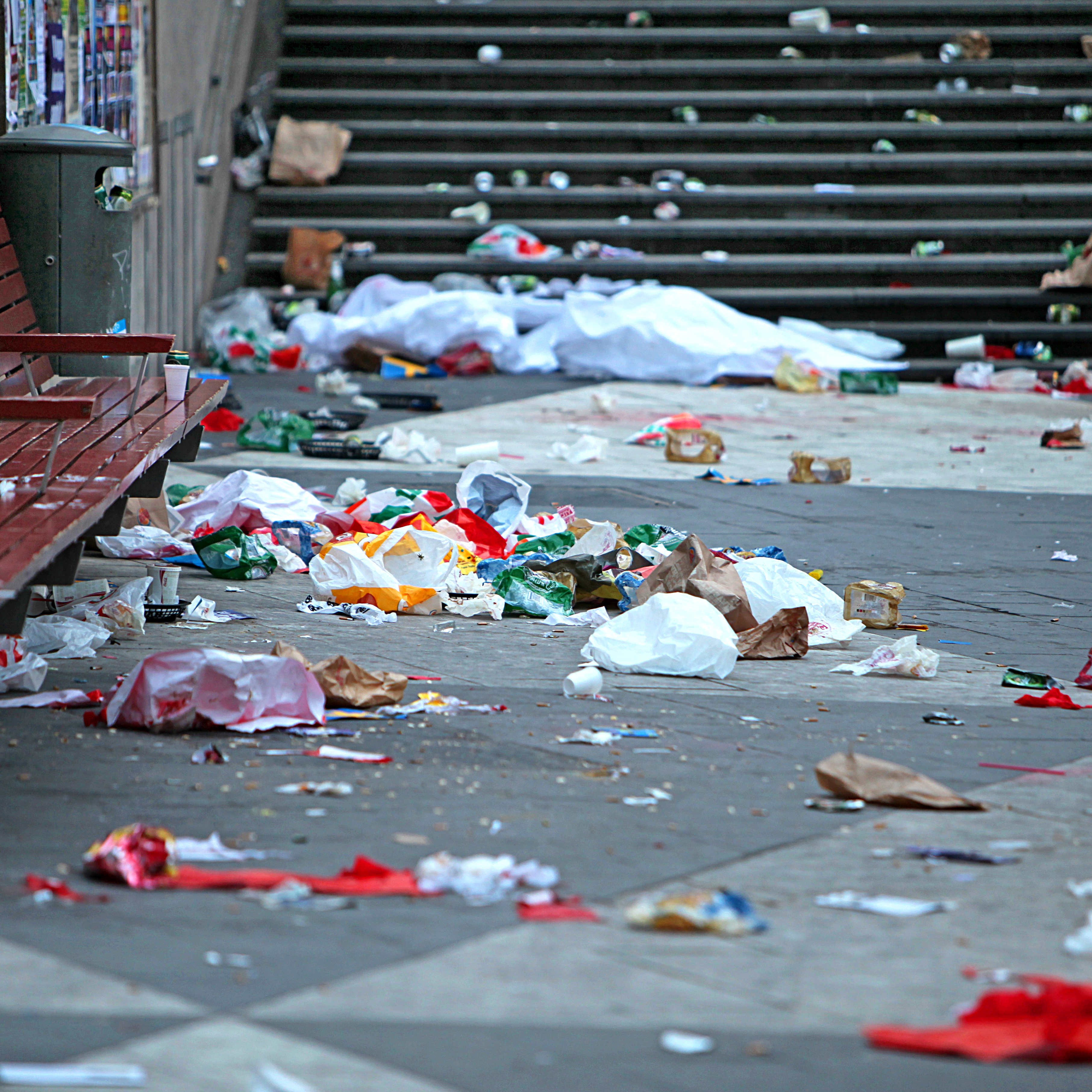 Littering in Stockholm